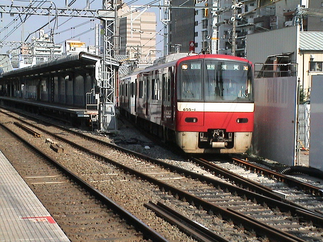 Keikyu Kamata Station before rebuilding